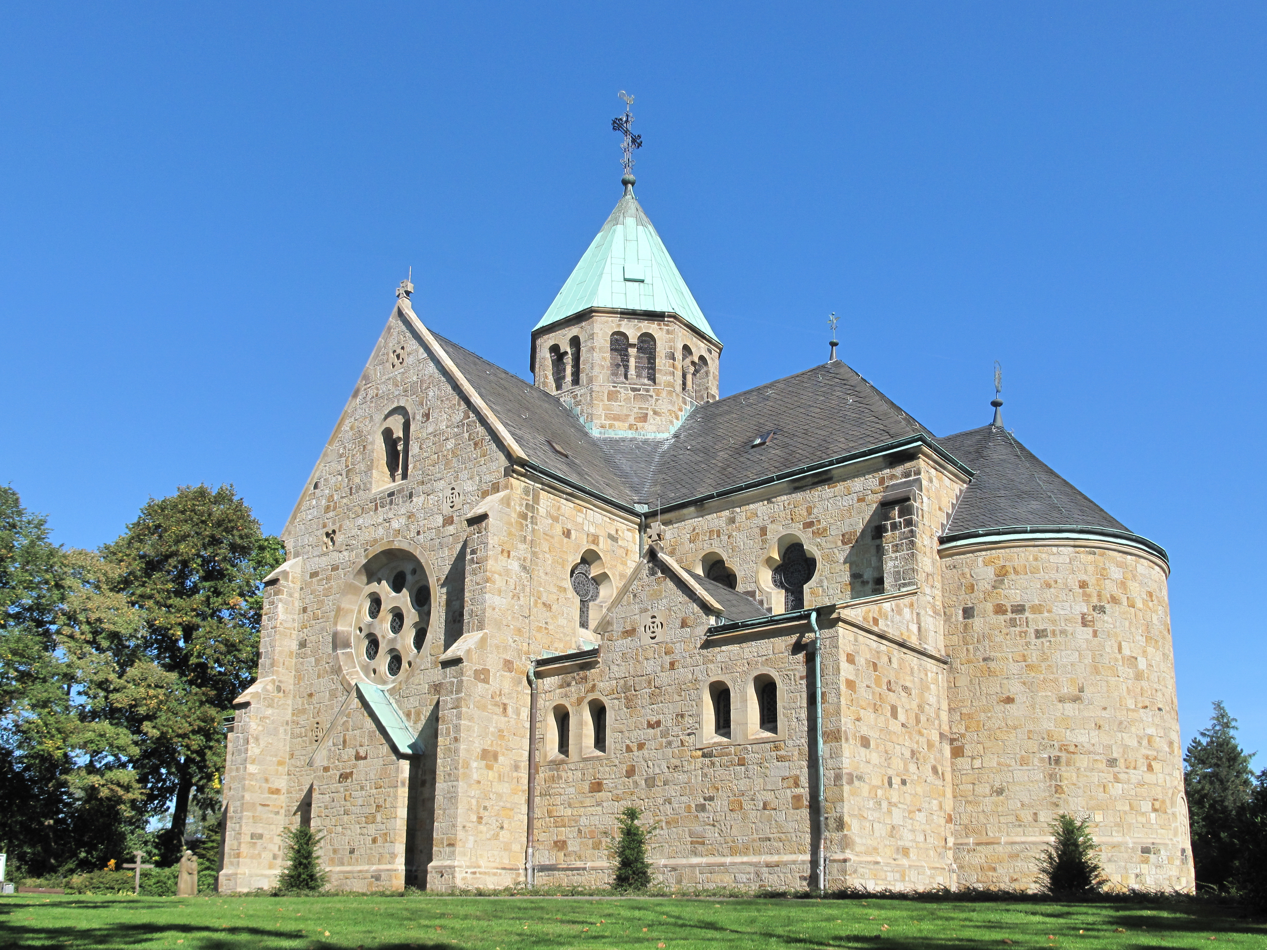 Hauenhorst, church: katholische Pfarrkirche Sankt Mariä Heimsuchung This is a photograph of an architectural monument.